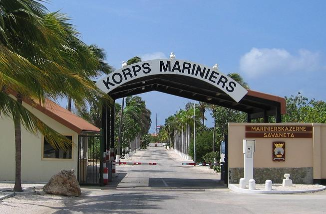 Picture of the Royal Netherlands Marine Corps Base on Aruba.